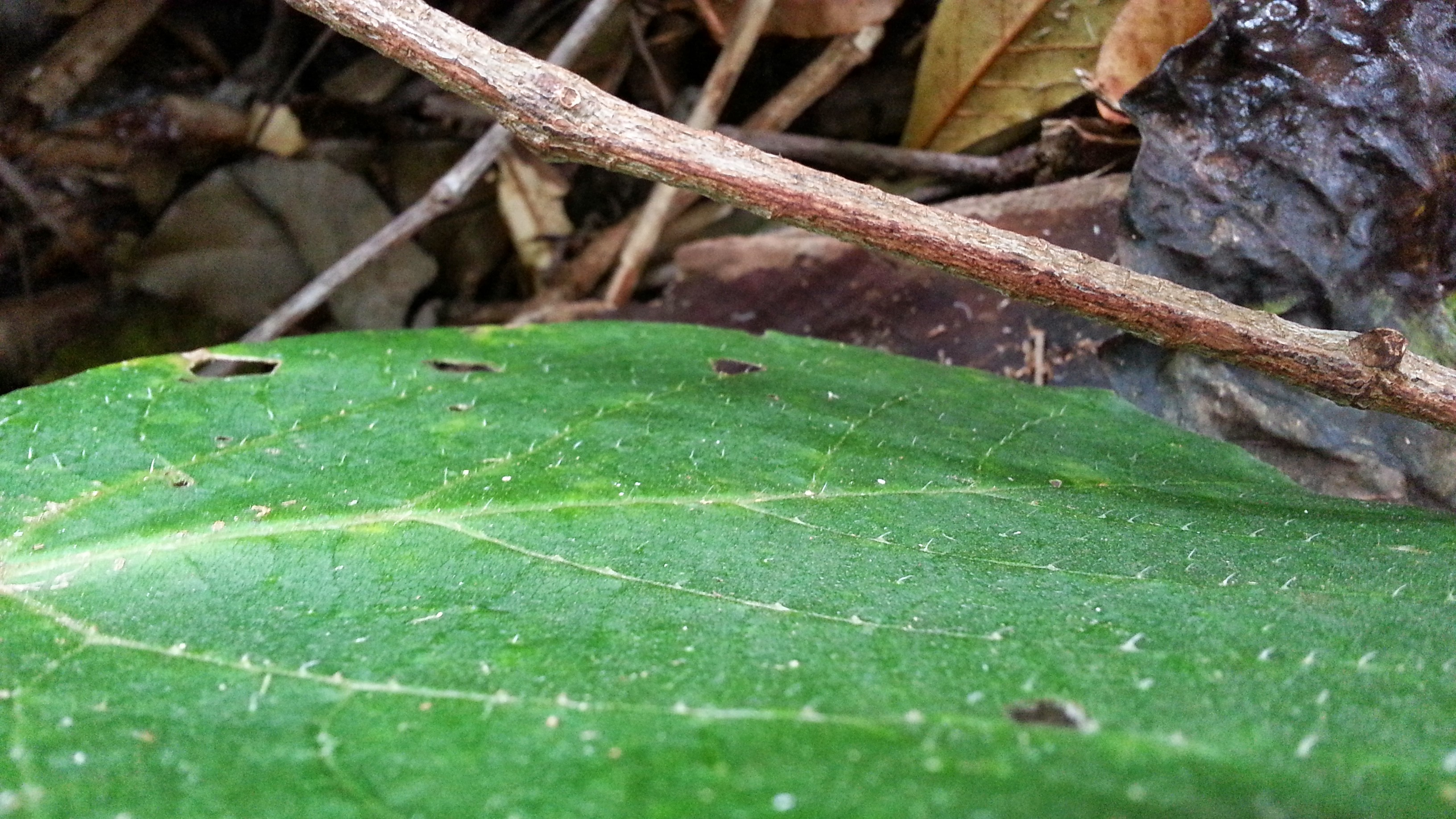 Leaf surface of Giant Stinging Tree (Dendrocnide excelsa) showing the stinging hairs.